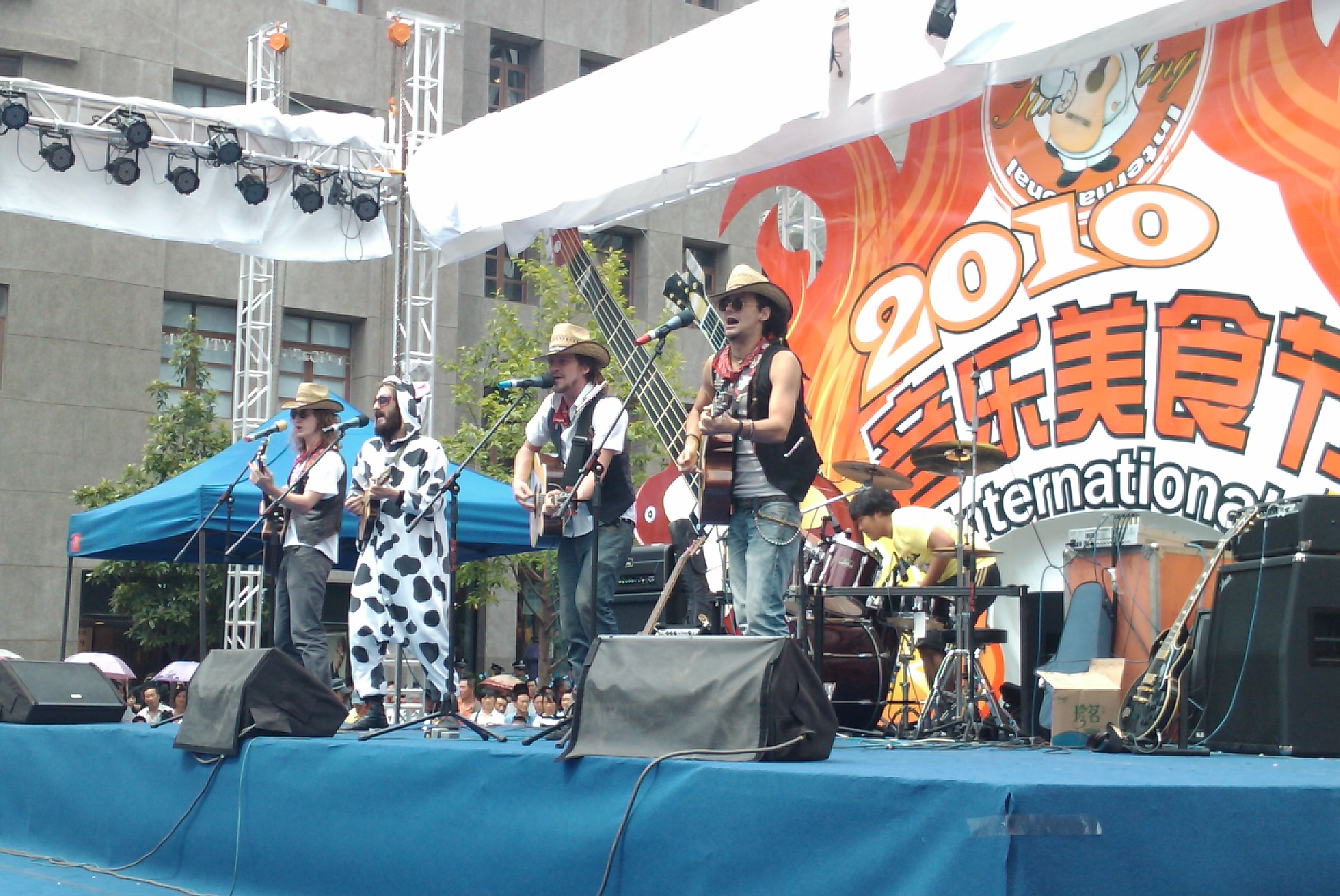 Quebec Redneck on stage in 2010, in Kunming, China